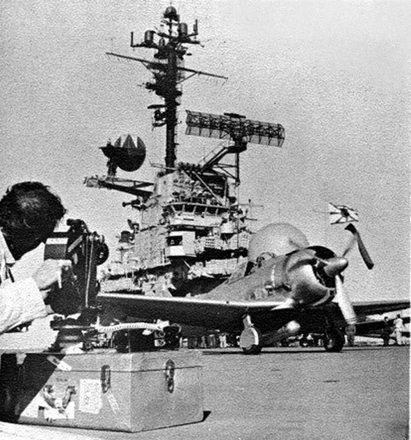 A cameraman films a North American T-6 Texan aboard the U.S. Navy aircraft carrier USS Yorktown (CVS-10) during the filming of the movie "Tora! Tora! Tora!", in December 1968. Most "Japanese" aircraft (in this case a Mitsubishi A6M2 Zero) were modified North American T-6 Texan trainers.